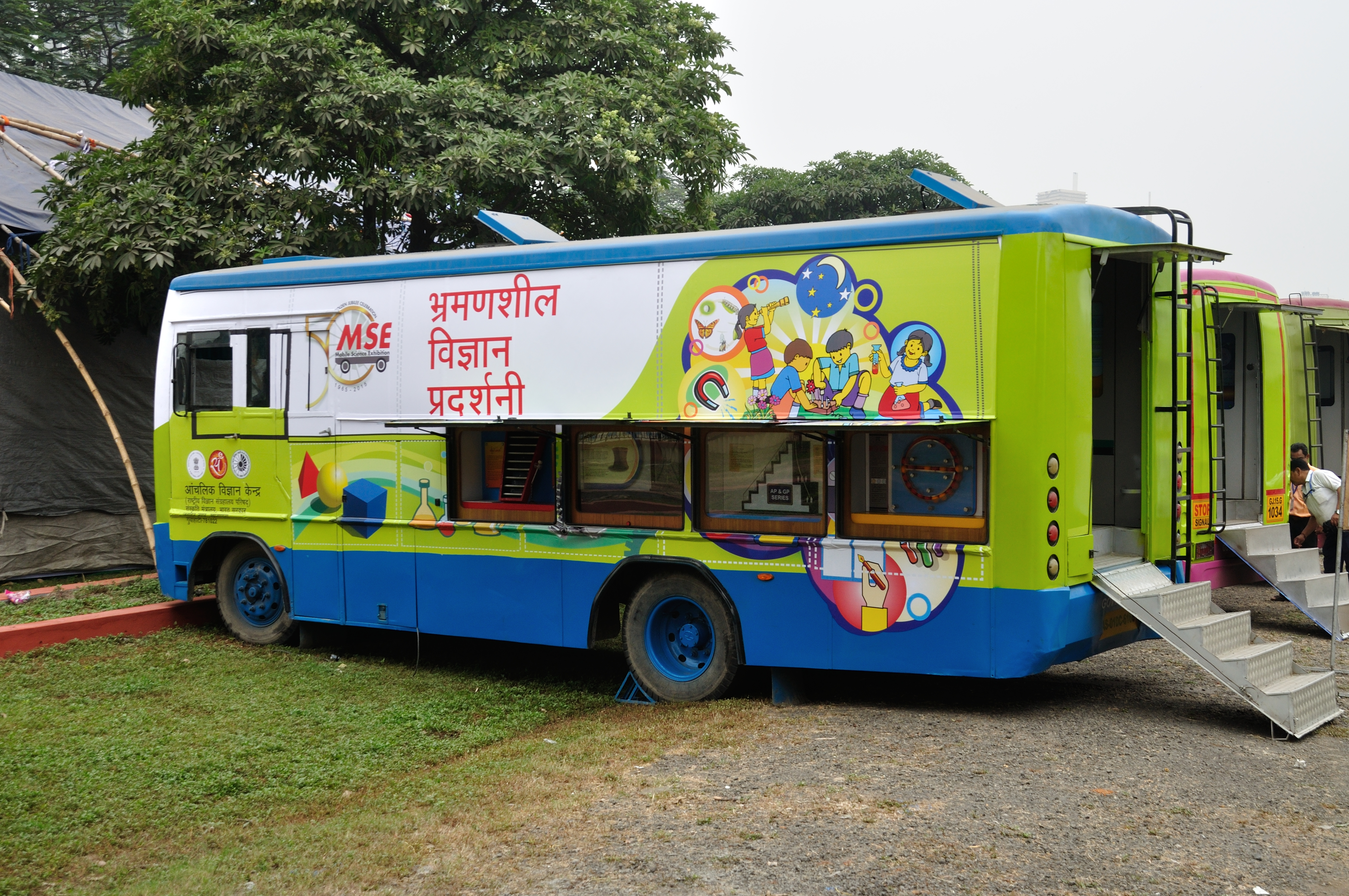 Photographed during the exhibition at the ‘Golden Jubilee Celebration’ of ‘Mobile Science Exhibition’ (MSE) by the ‘National Council of Science Museums’ (NCSM), under the Ministry of Culture, Government of India that was held at Science City, Kolkata that was held from 17 to 20 November 2015.